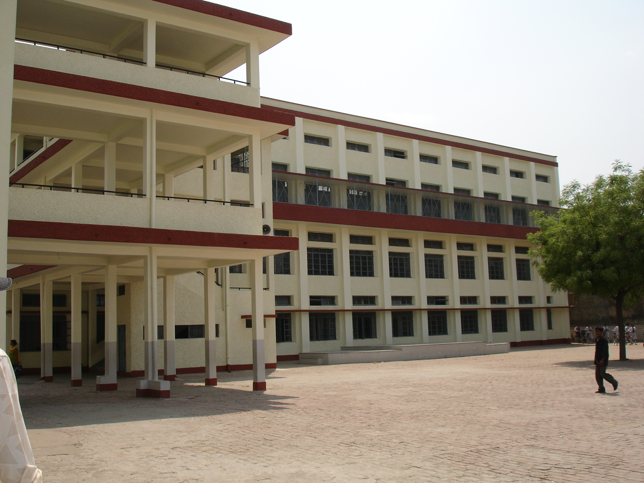 Taken by self.